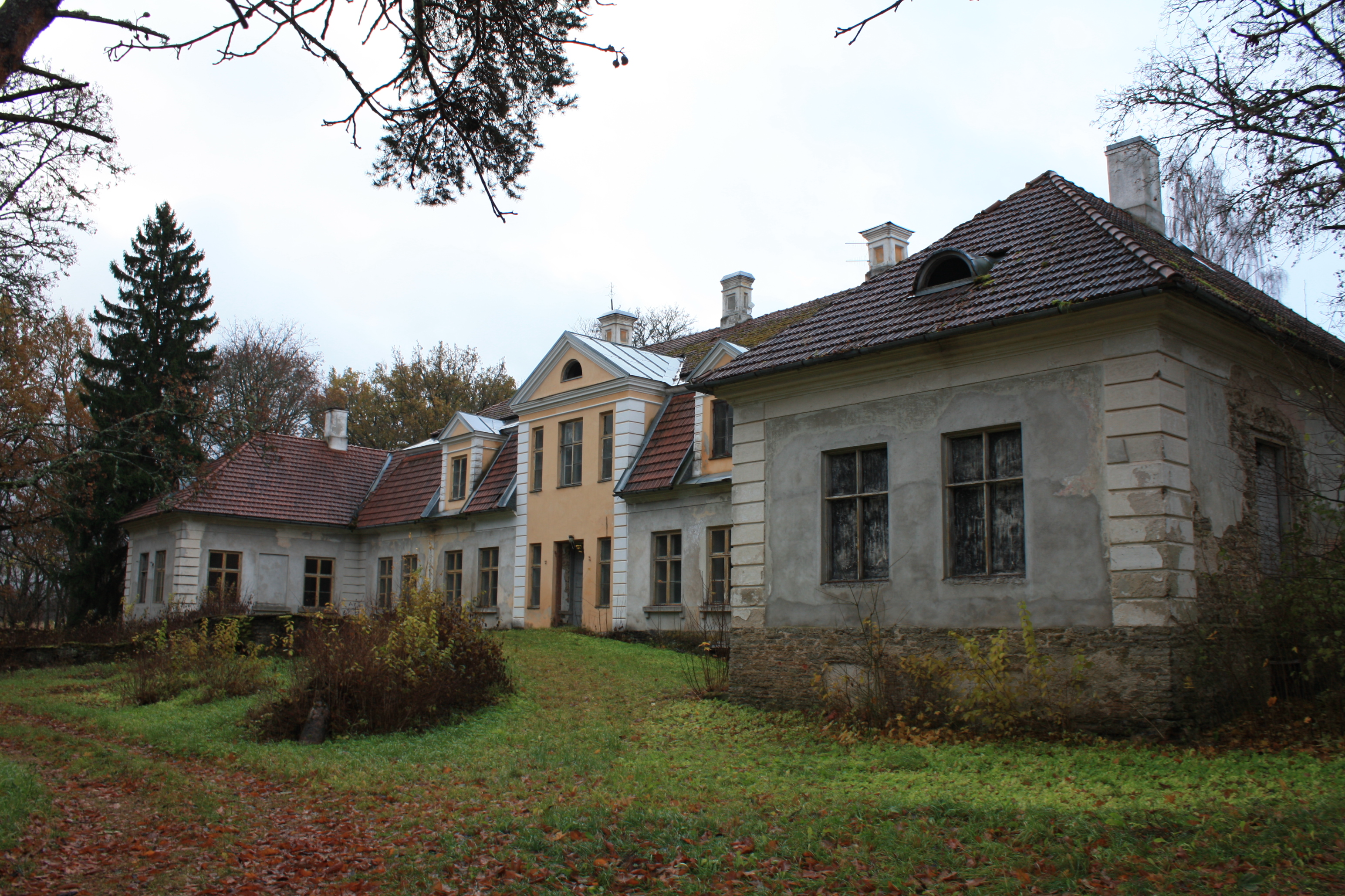 Kodasoo manorhouse